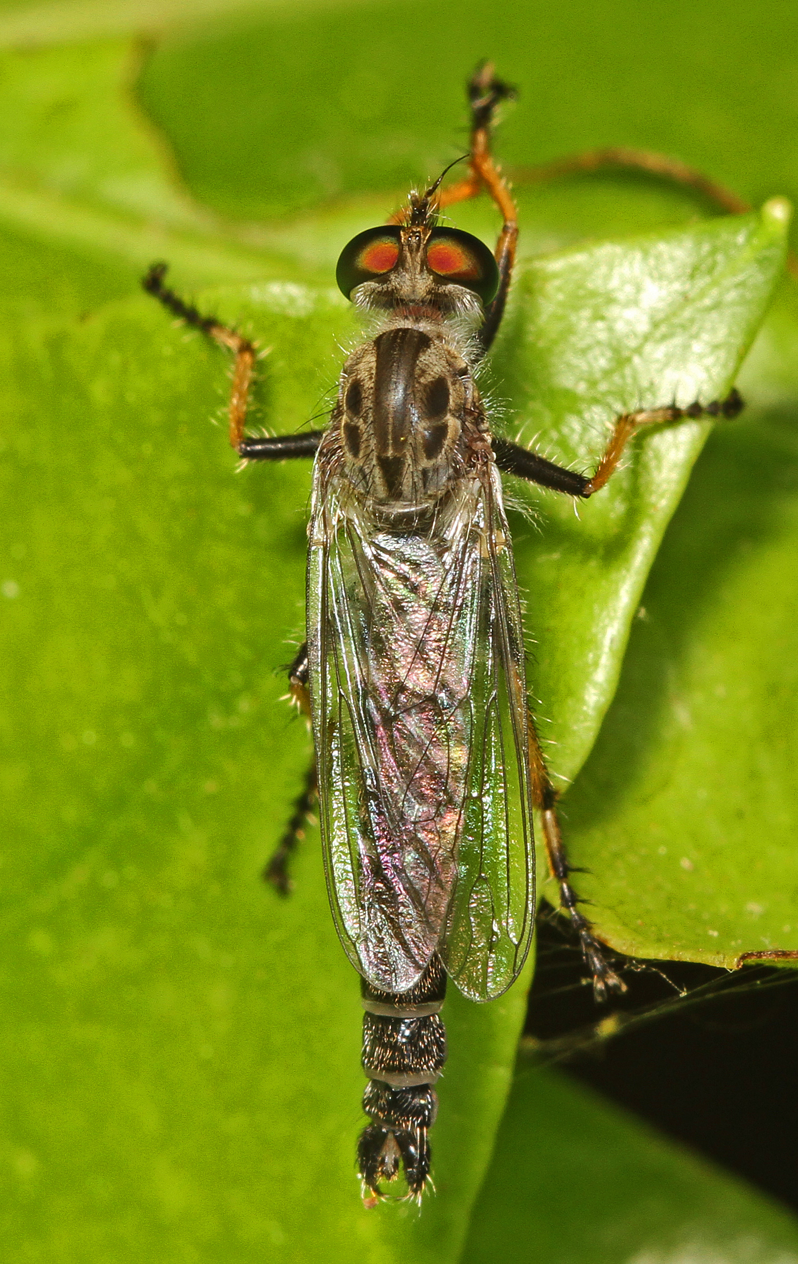 Robber Fly - Neoitamus flavofemoratus, Meadowood Farm SRMA, Mason Neck, Virginia.